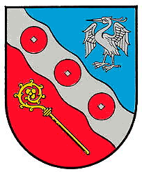 Coat of arms of Bisterschied